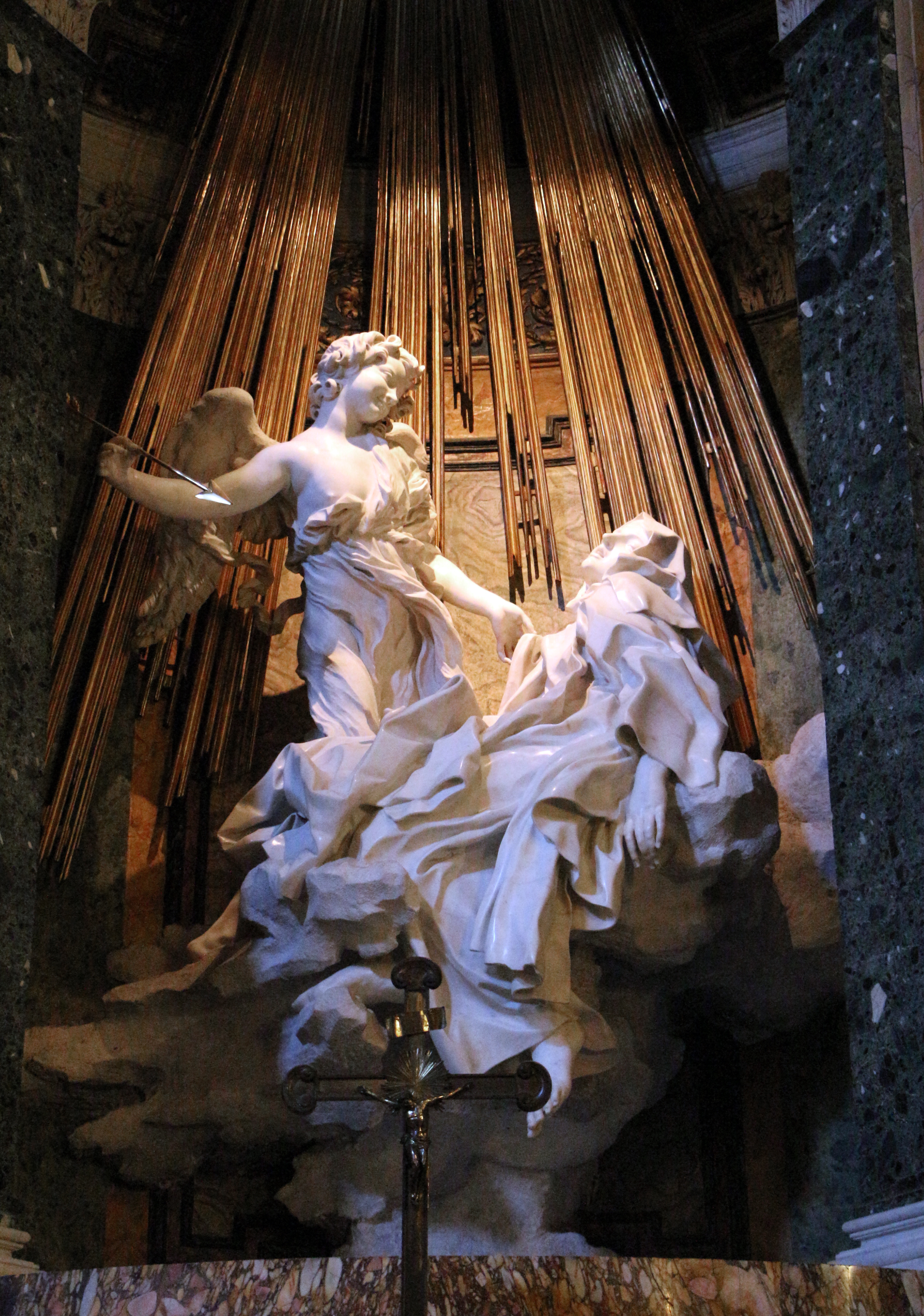 Cornaro chapel in Santa Maria della Vittoria in Rome